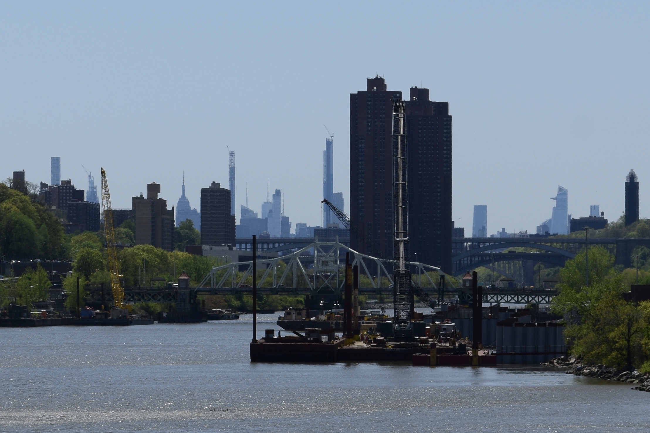 View of Manhattan Skyline from The River Plaza parking lot. Visible is 432 Park Avenue, Empire State Building, and World Trade Center to name a few.